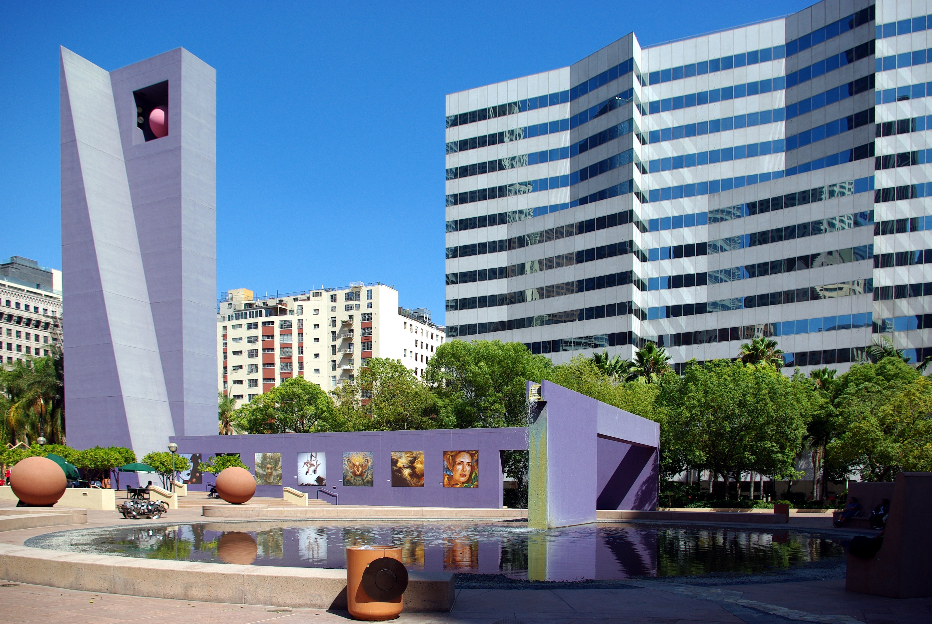 Pershing Square, Downtown Los Angeles